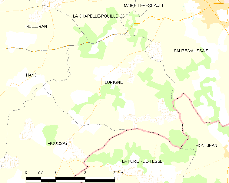 Map of French municipality Lorigné